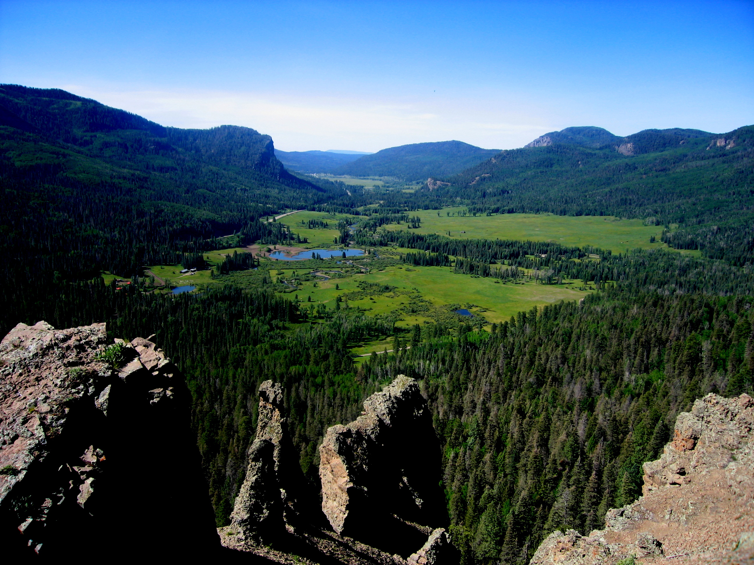 Taken on June 16th, 2007 ascending from West to the pass. Shot with Canon S60.